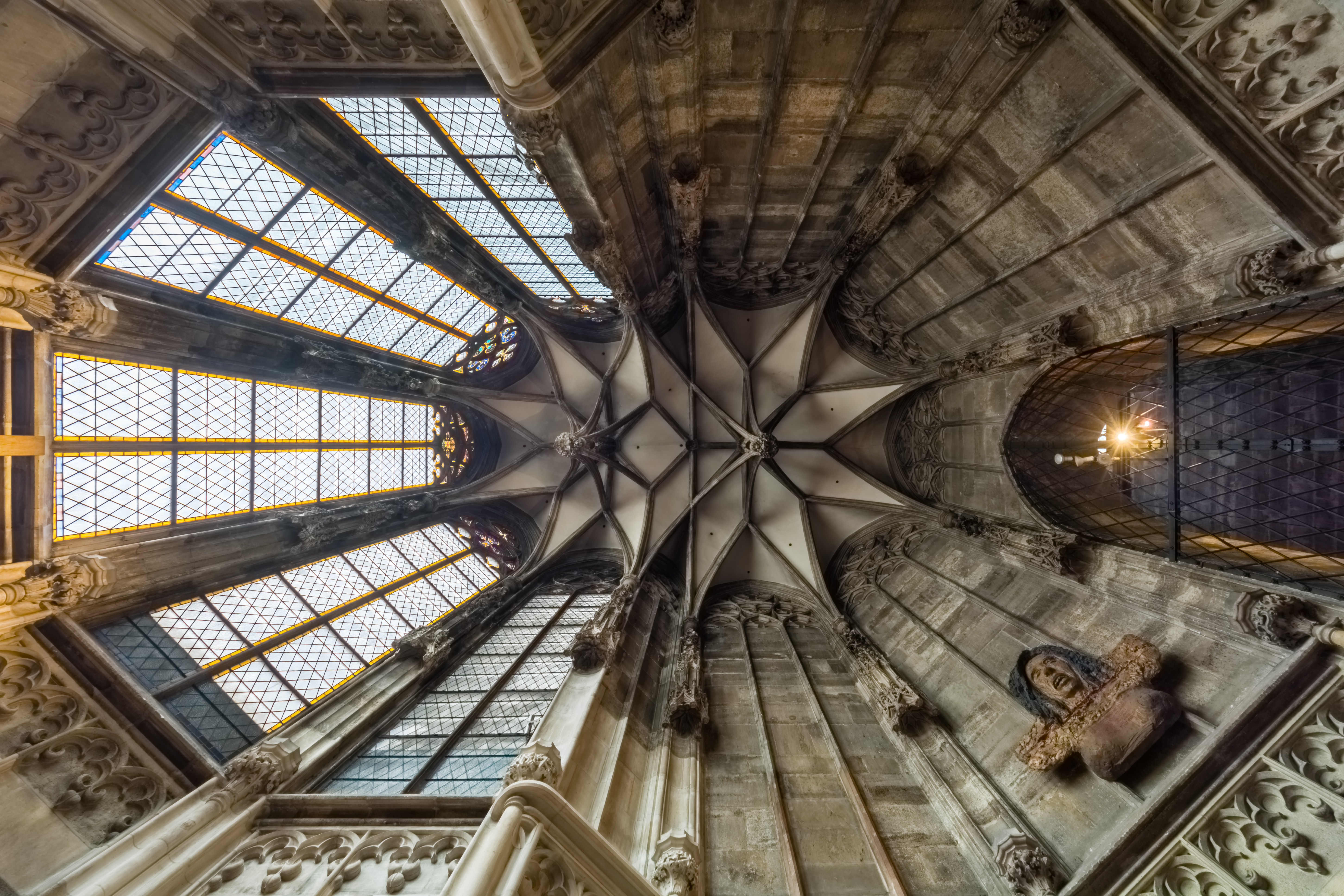 Vault with hanging keystones in St. Barbara's Chapel of St. Stephen's Cathedral, Vienna, Austria